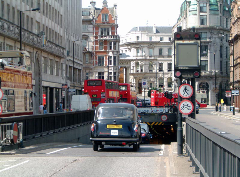 Strand underpass, London. This is the southern end of the underpass, where traffic leaves Waterloo Bridge by it, having first moved into the right-hand lane on the bridge. The photo is taken from the northern end of Waterloo Bridge, looking north. Please note that this is not a safe place to take a photo: if trying for one please be careful. The traffic is quite fast moving and not expecting to find a person on foot there.